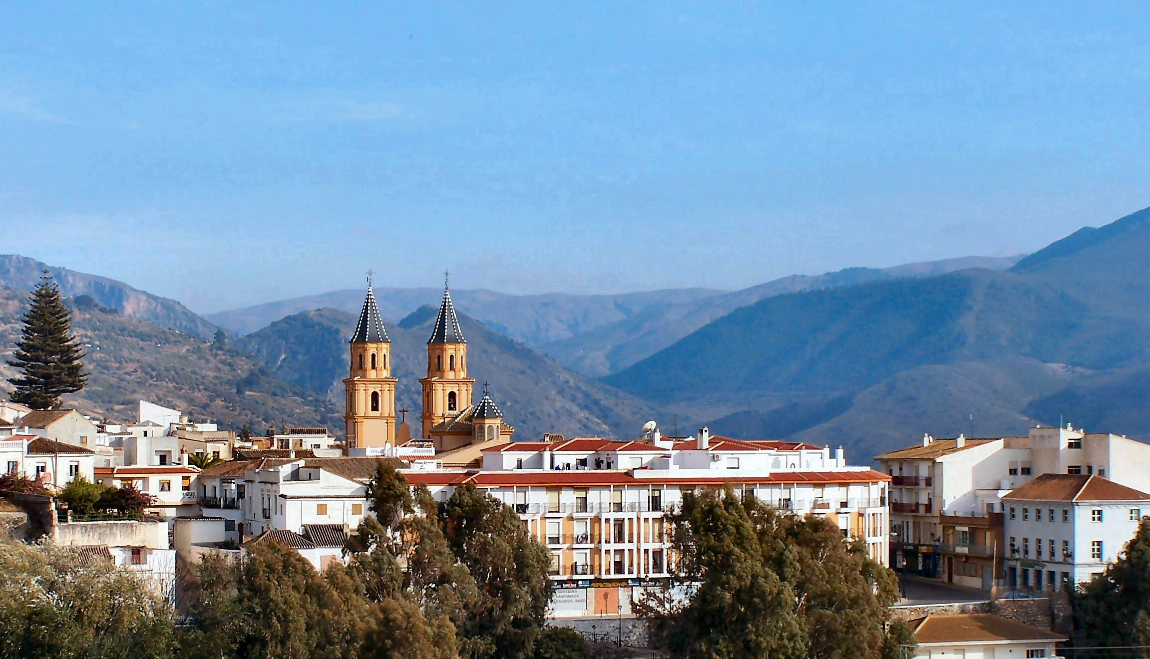 Orgiva looking eastward